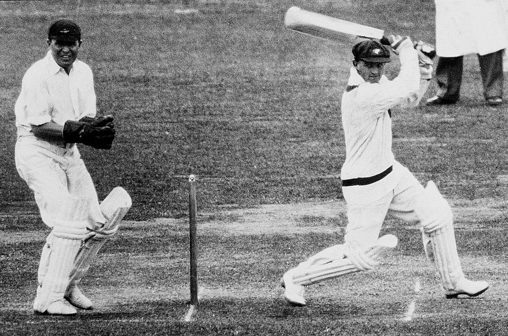 June 1934, MCC, v Australia at Lord's, Australia batsman Stan McCabe hits out as wicket-keeper Les Ames watches